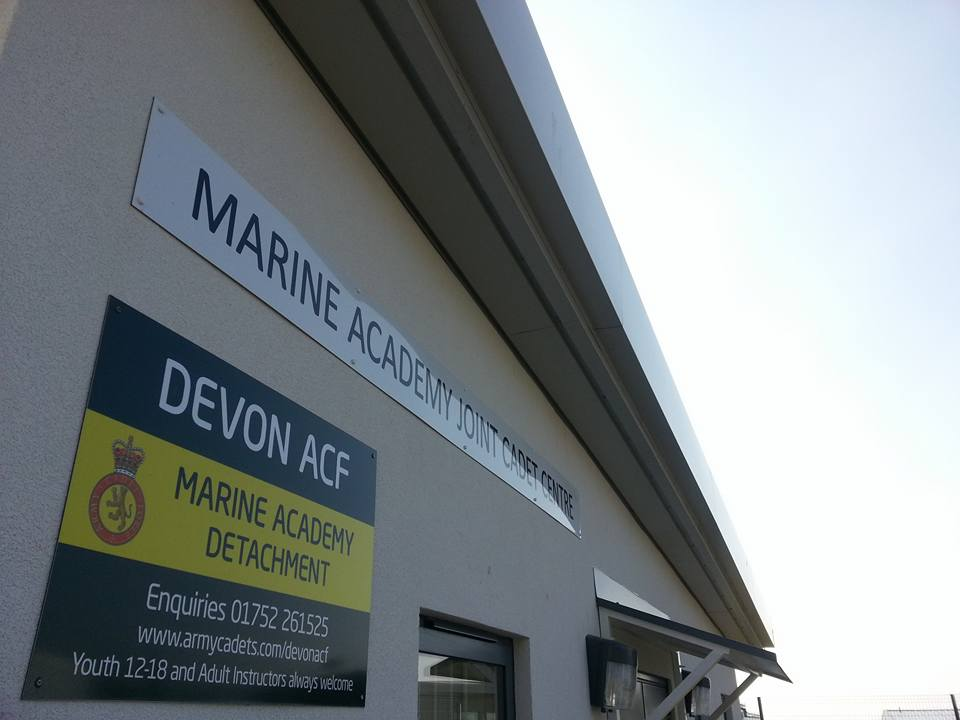 Marine Academy Joint Cadet Centre, home of Marine Academy Detachment ACF and ATC Flight 2171